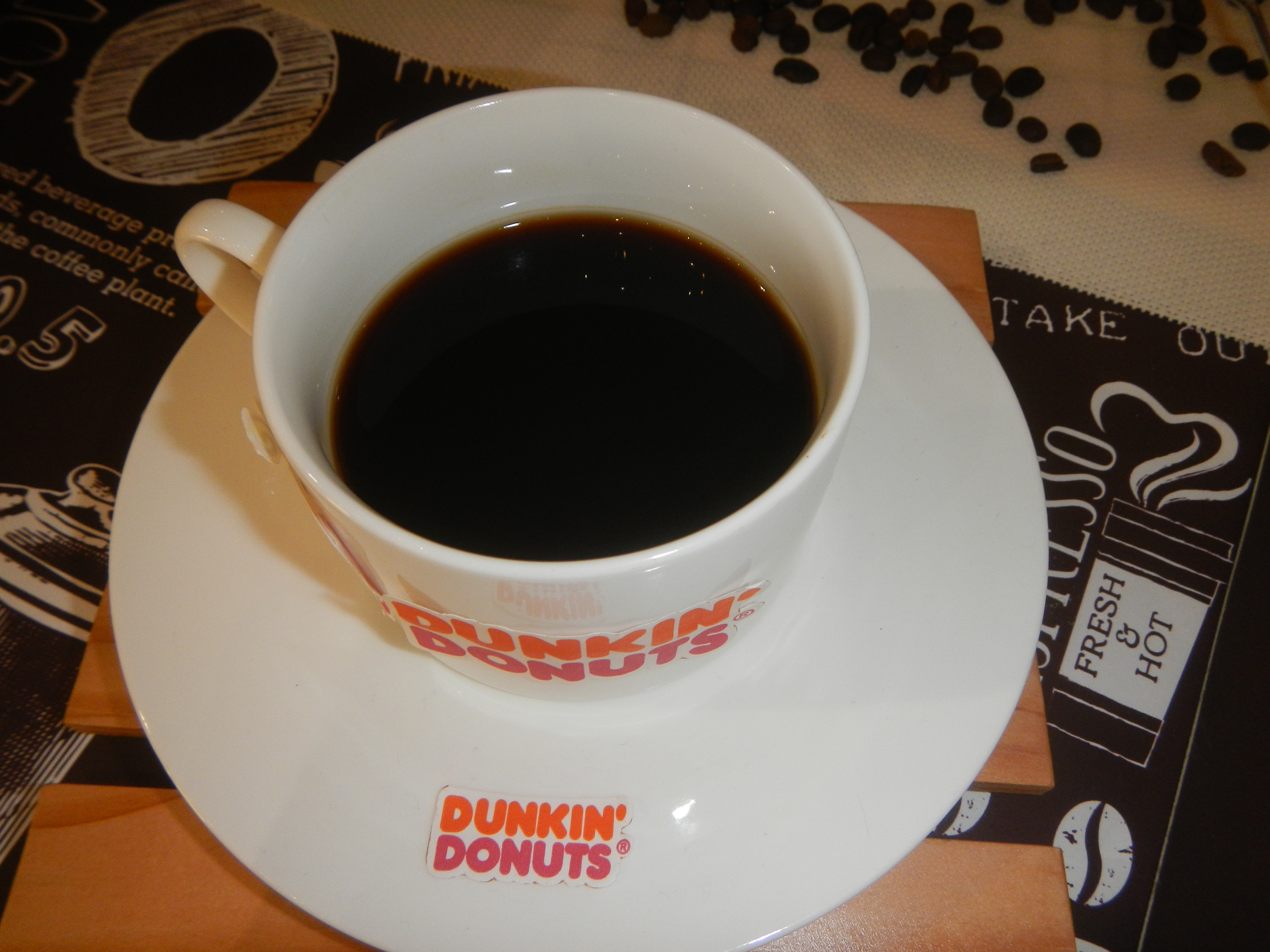 Dunkin' Donuts in the Philippines Dunkin%27_Donuts Dunkin' Donuts products in the Philippines in SM City Baliuag Barangay Pagala 14°58'14"N 120°53'26"E Baliuag, Bulacan, Bulacan province (accessed from Cagayan Valley Road, Baliuag-Pulilan-Guiguinto, Bulacan) Pan-Philippine Highway, also known as the Maharlika "Nobility/freeman" Highway or Asian Highway 26, Cagayan Valley Road (Note: Judge Florentino Floro, the owner, to repeat, Donor Florentino Floro of all these photos hereby donate gratuitously, freely and unconditionally all these photos to and for Wikimedia Commons, exclusively, for public use of the public domain, and again without any condition whatsoever).